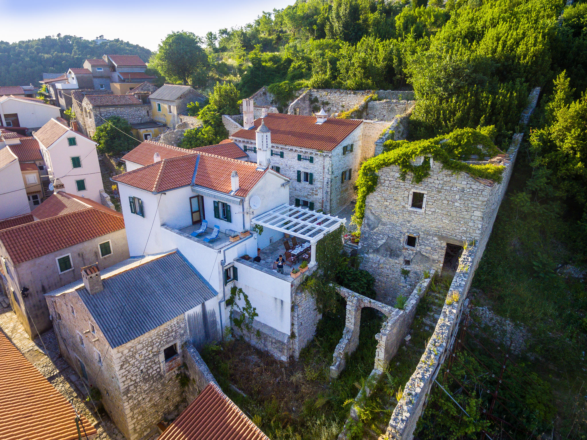 Vlatković (Kontin's) palace is located within the historic center of Novigrad, just above the Great (city) gate along the eastern rampart. The yard is a set of residential and commercial buildings with a water cistern and terraced gardens. It was extended several times in the period from the 17th to the 19th century. The last extensive reconstruction of the complex was carried out in 1813, when Canon Pave Vlatković built a cistern and decorated the residential buildings in the forms of classicism.